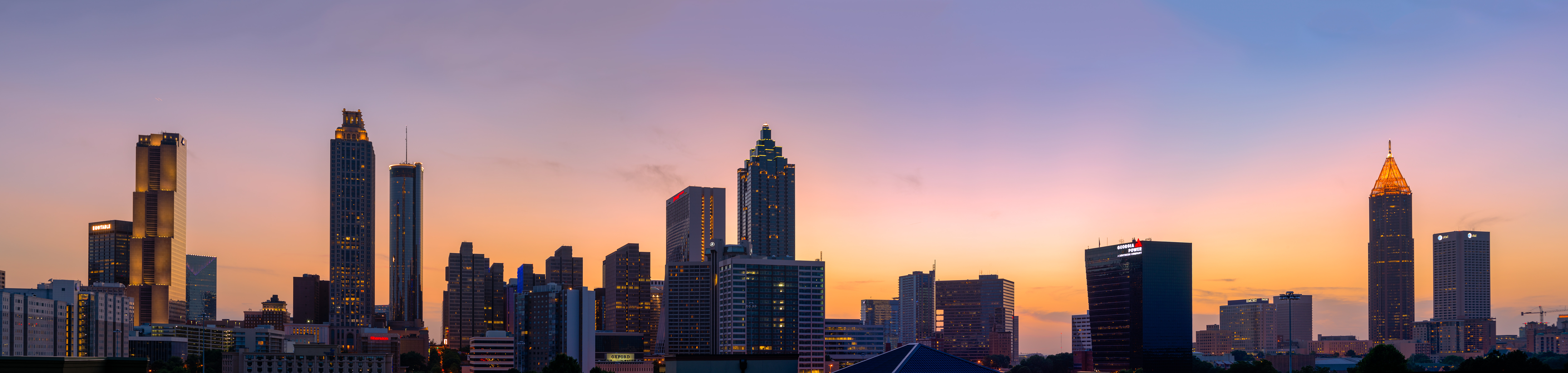 Panoramic shot of Downtown Atlanta at sunset.